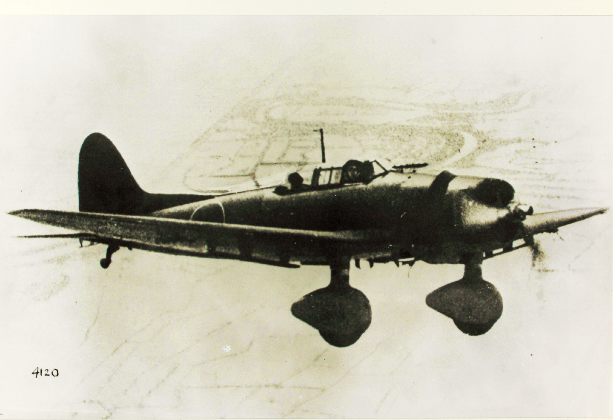 Title: Aichi, D3A, Val Navy type 99 Carrier bomber Notes: Japan Catalog #: 01_00090109 Manufacturer: Aichi Designation: D3A Official Nickname: Val Navy type 99 Carrier bomber Repository: San Diego Air and Space Museum Archive Tags: Aichi, D3A, Val Navy type 99 Carrier bomber, Japan